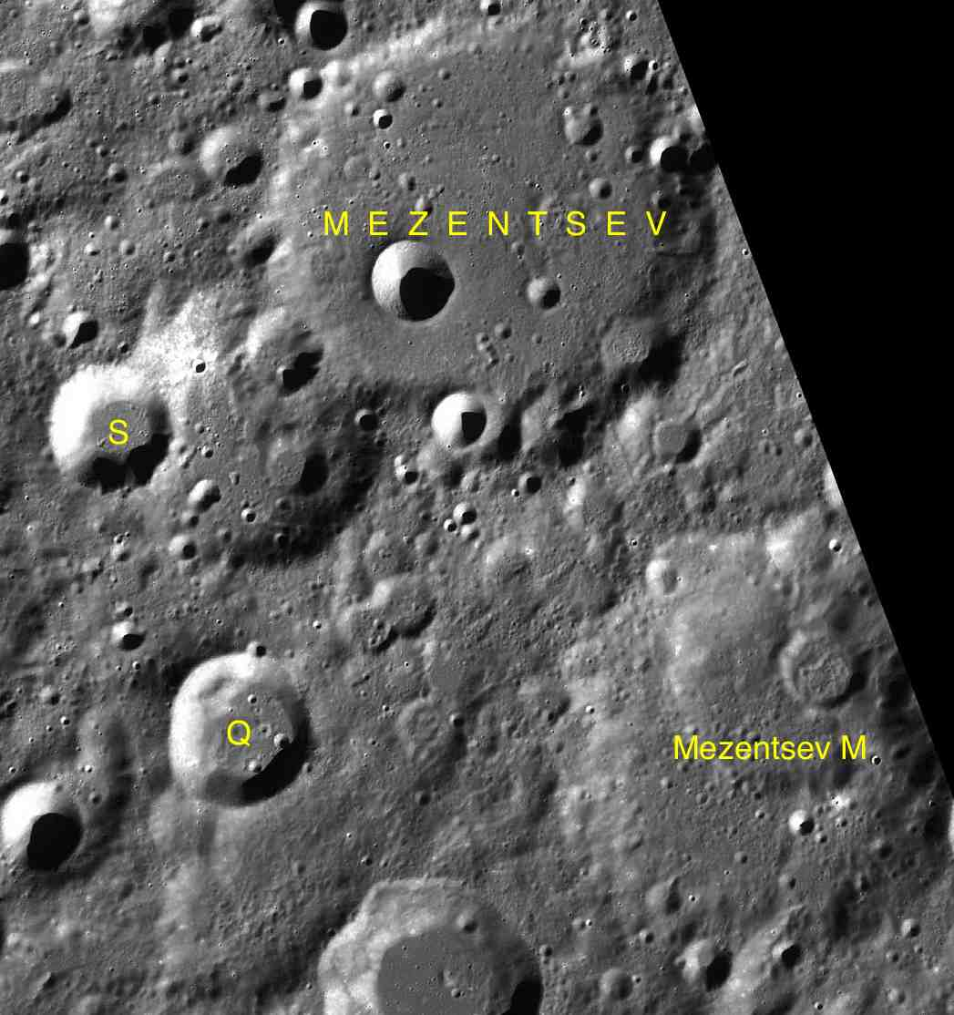 Part of the chart LAC-8 used for the presentation